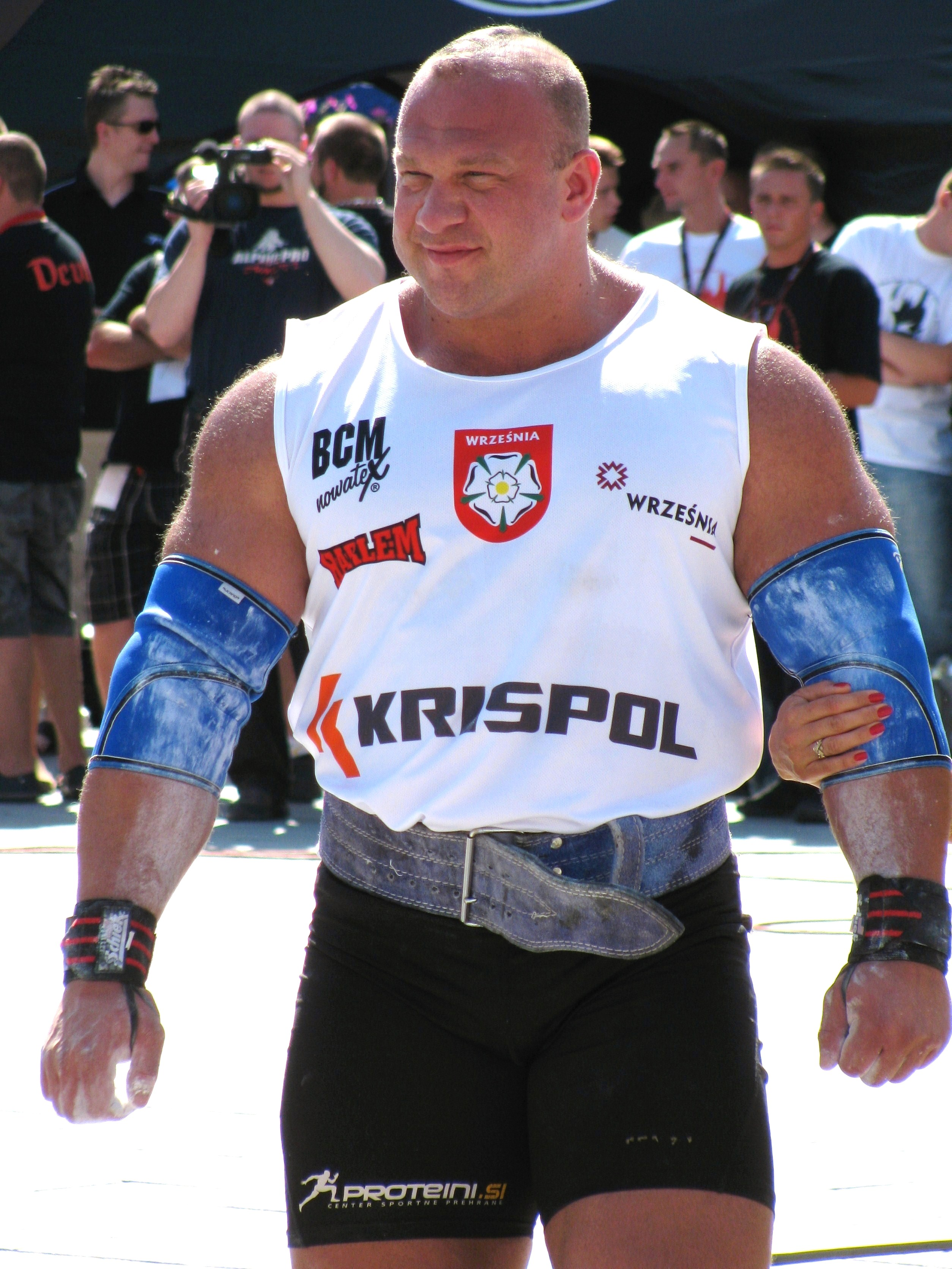 Gregor Stegnar - the top strength athlete from Slovenia.